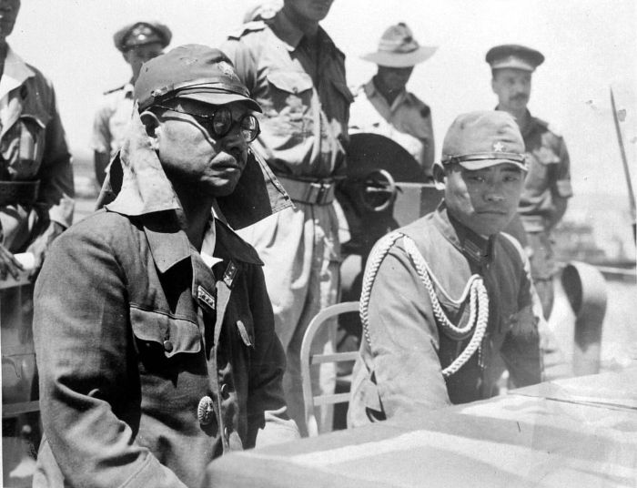 In the port of Kupang (Timor) on the deck of the HMAS Moresby, the Japanese commander Colonel Tatsuichi Kaida and his chief of staff Major Minoru Shoji, listen to the terms of surrender in connection with the capitulation of Japan